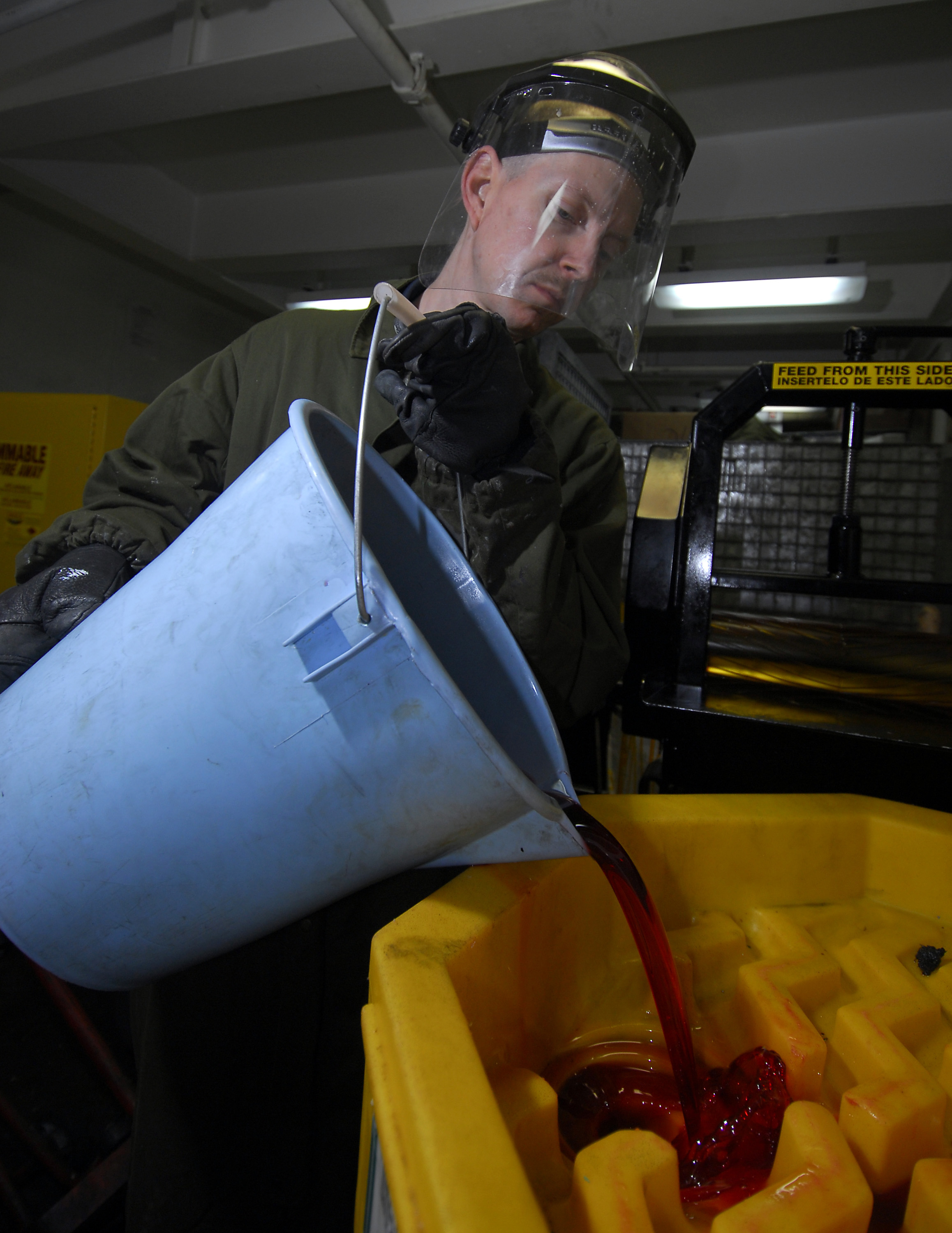 PACIFIC OCEAN (March 16, 2009) Boatswain's Mate 2nd Class George Cabeen, from Houston, Texas, empties used hydraulic fluid into a storage container in the hazardous material shop aboard the Nimitz-class aircraft carrier USS John C. Stennis (CVN 74). John C. Stennis is on a scheduled six-month deployment to the western Pacific Ocean. (U.S. Navy photo by Mass Communication Specialist 3rd Class Jon Husman/Released)